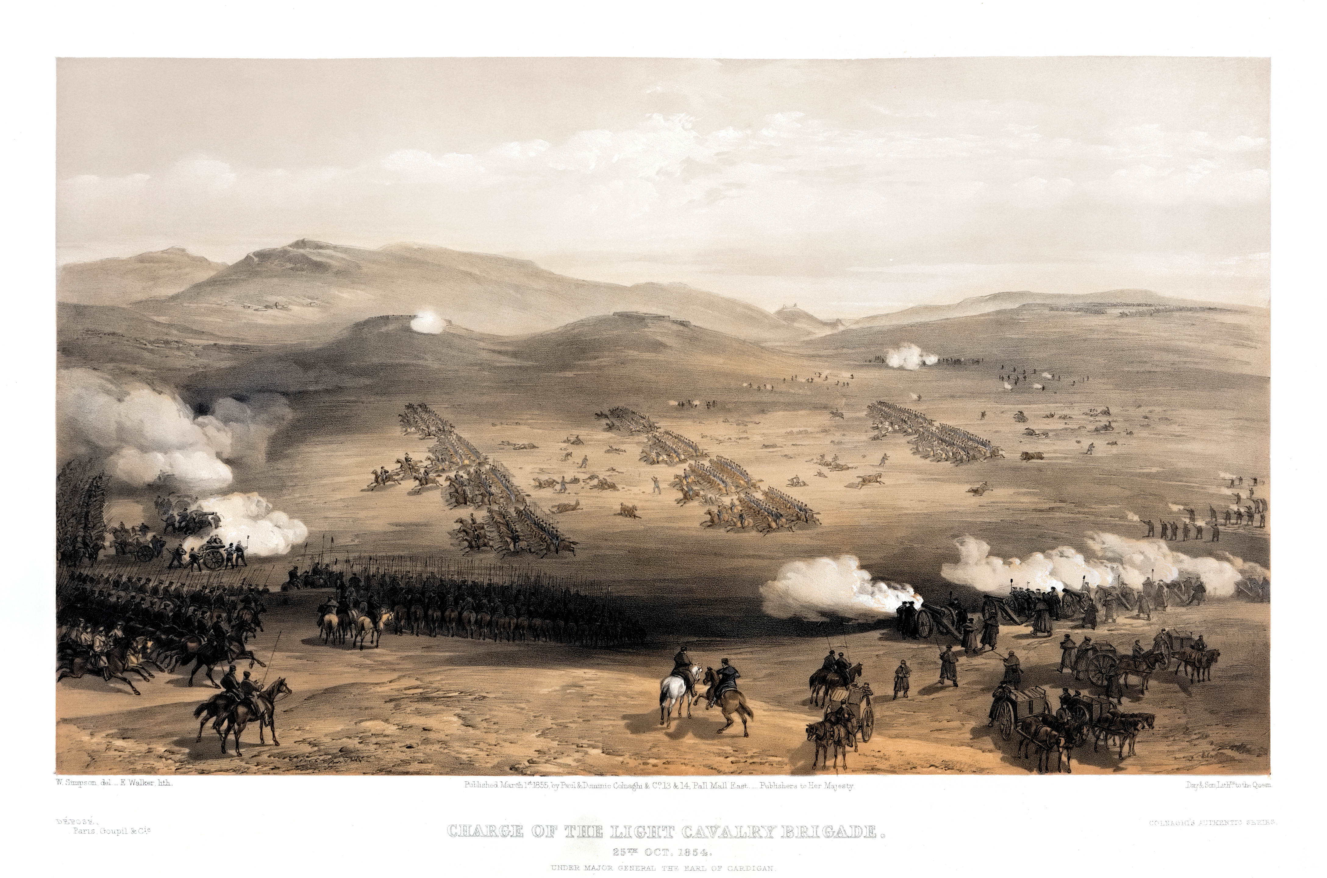 Charge of the Light Cavalry Brigade, 25th Oct. 1854, under Major General the Earl of Cardigan, by William Simpson Print shows Lord Cardigan leading the charge of the light brigade toward Russian artillery on the left, in the foreground, Russian artillery fire on the left flank of the charging light brigade, as artillery on the hills in the background fire on the right flank; Russian cavalry wait in readiness to engage the British or to counterattack.